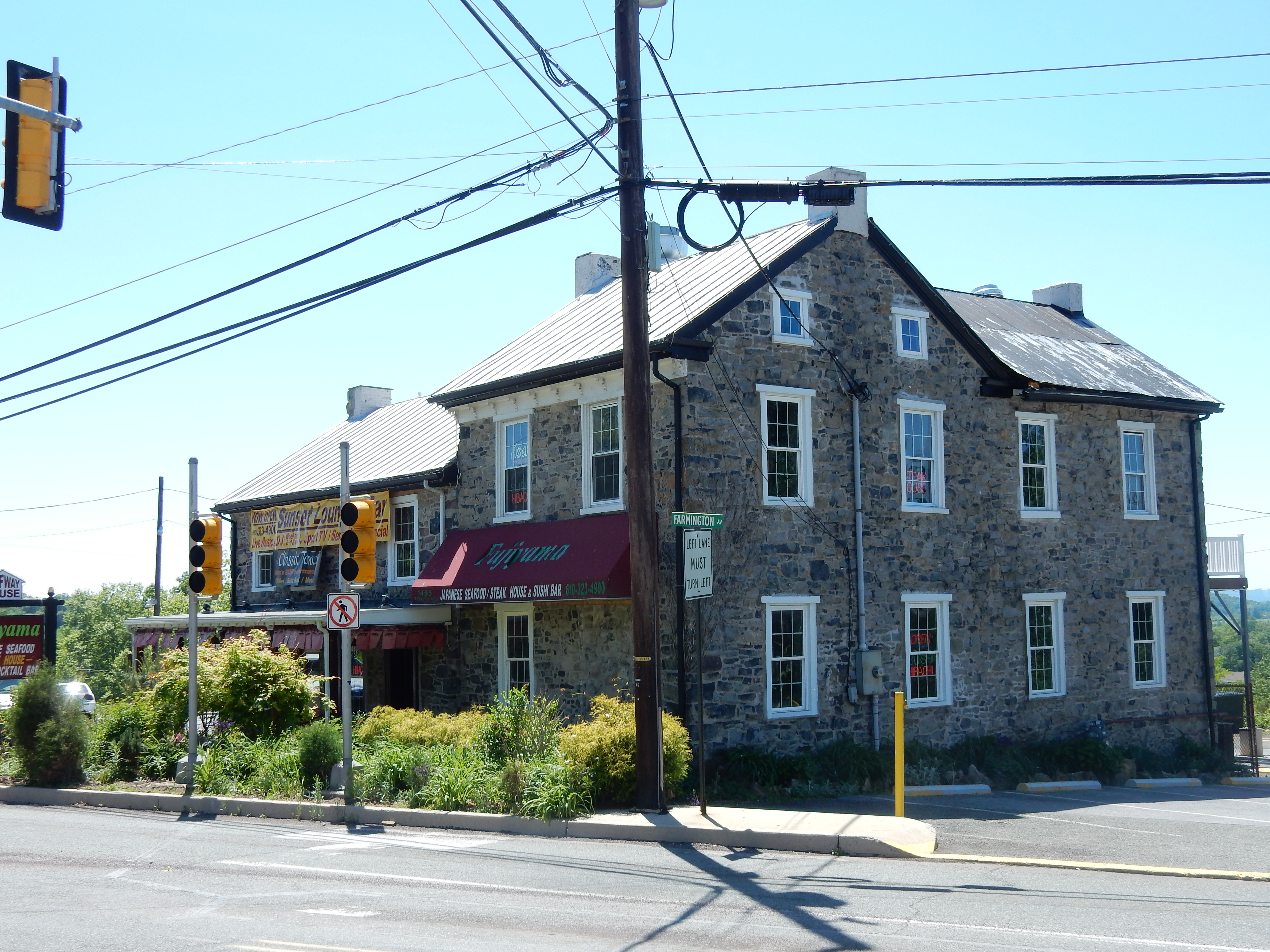 Fujiyama Sunset Lounge, Half Way House, 1495 Farmington Ave., Upper Pottsgrove, PA.